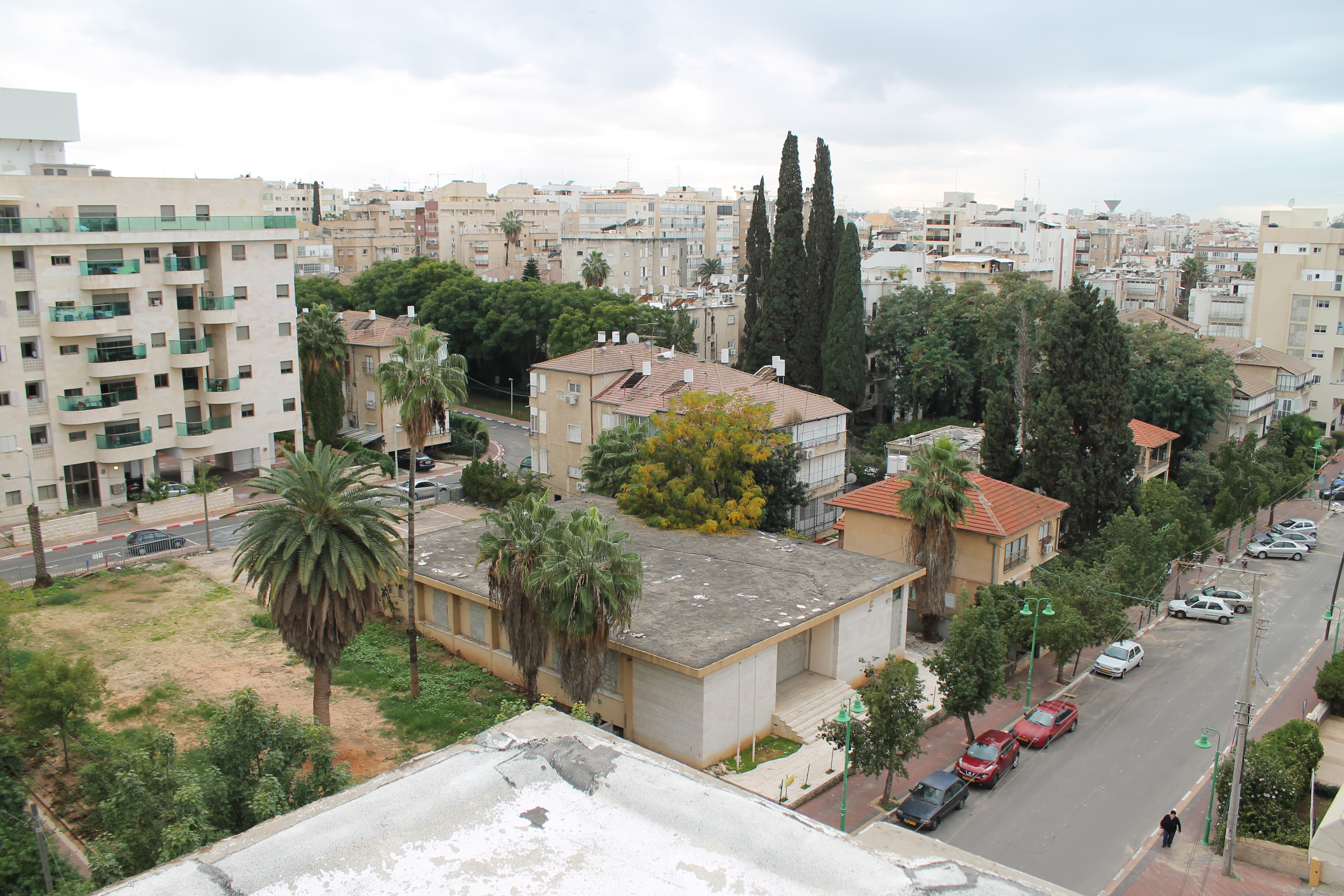 view of Petah Tikva